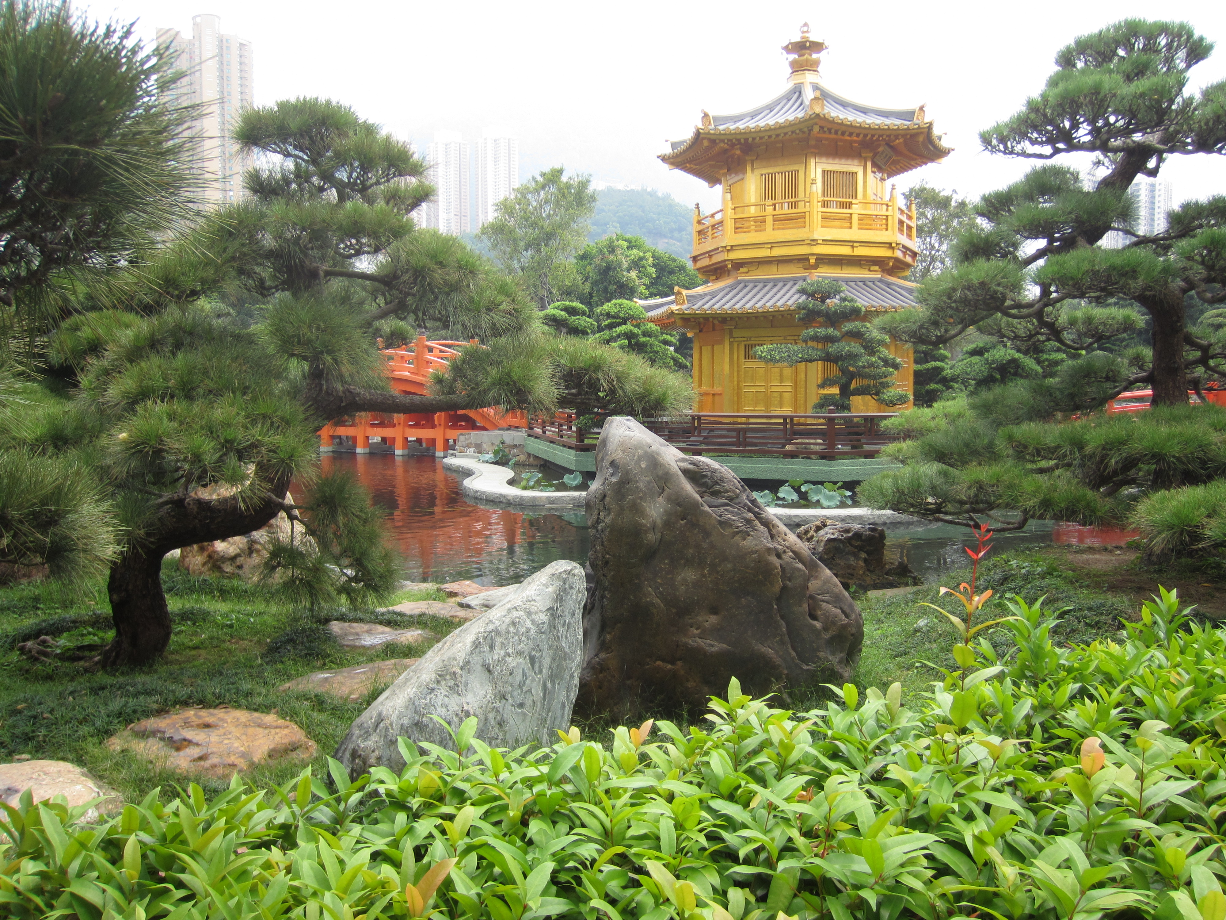 Hong Kong (November 2017)